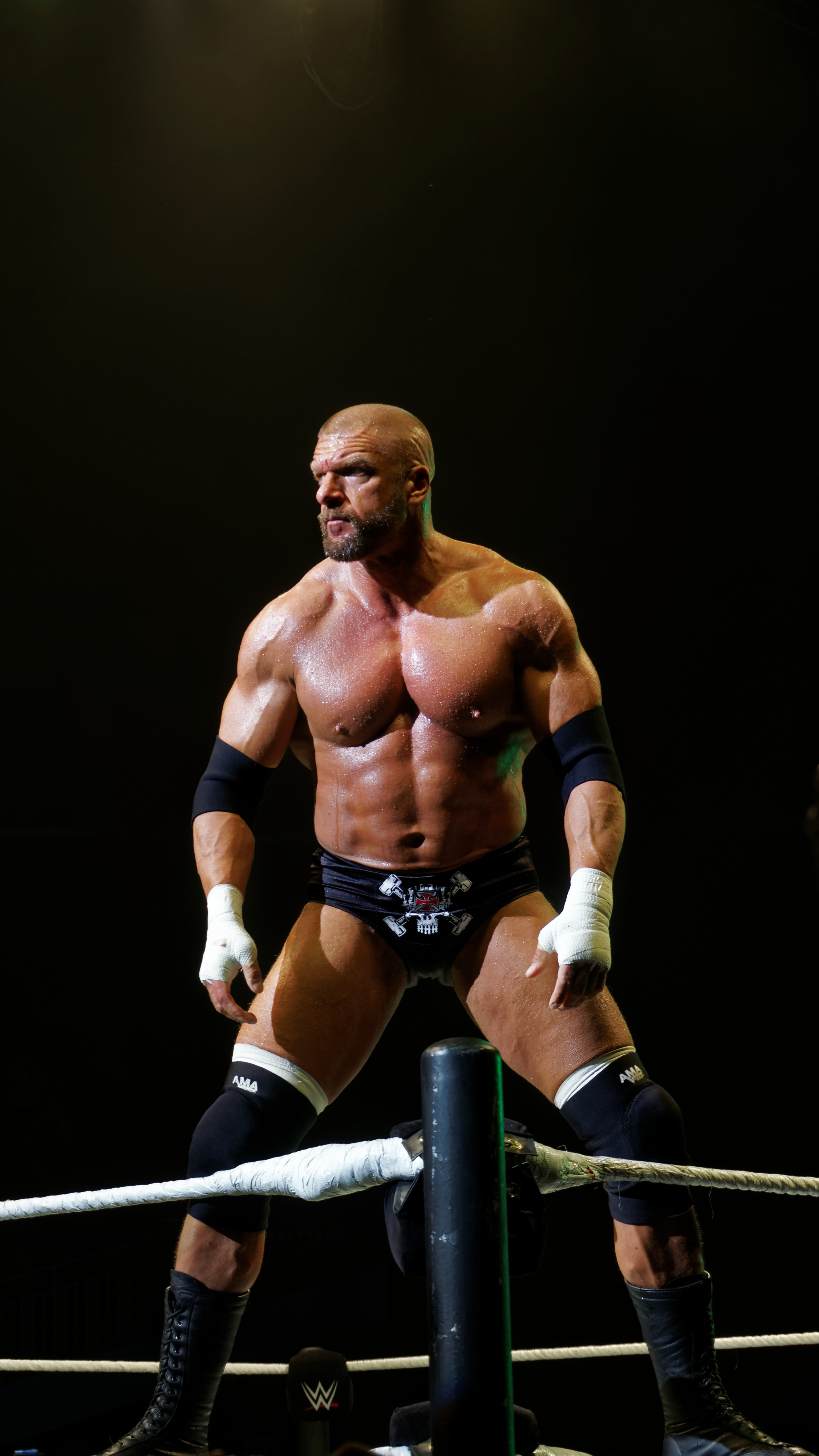 WWE Live WrestleMania Revenge Dean Ambrose def. Triple H